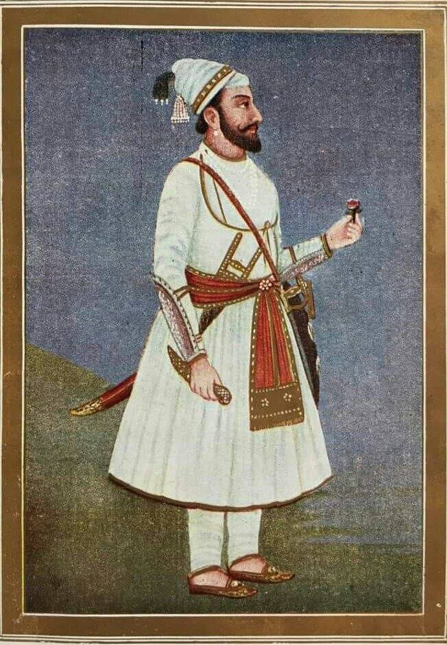 Shivaji the Great